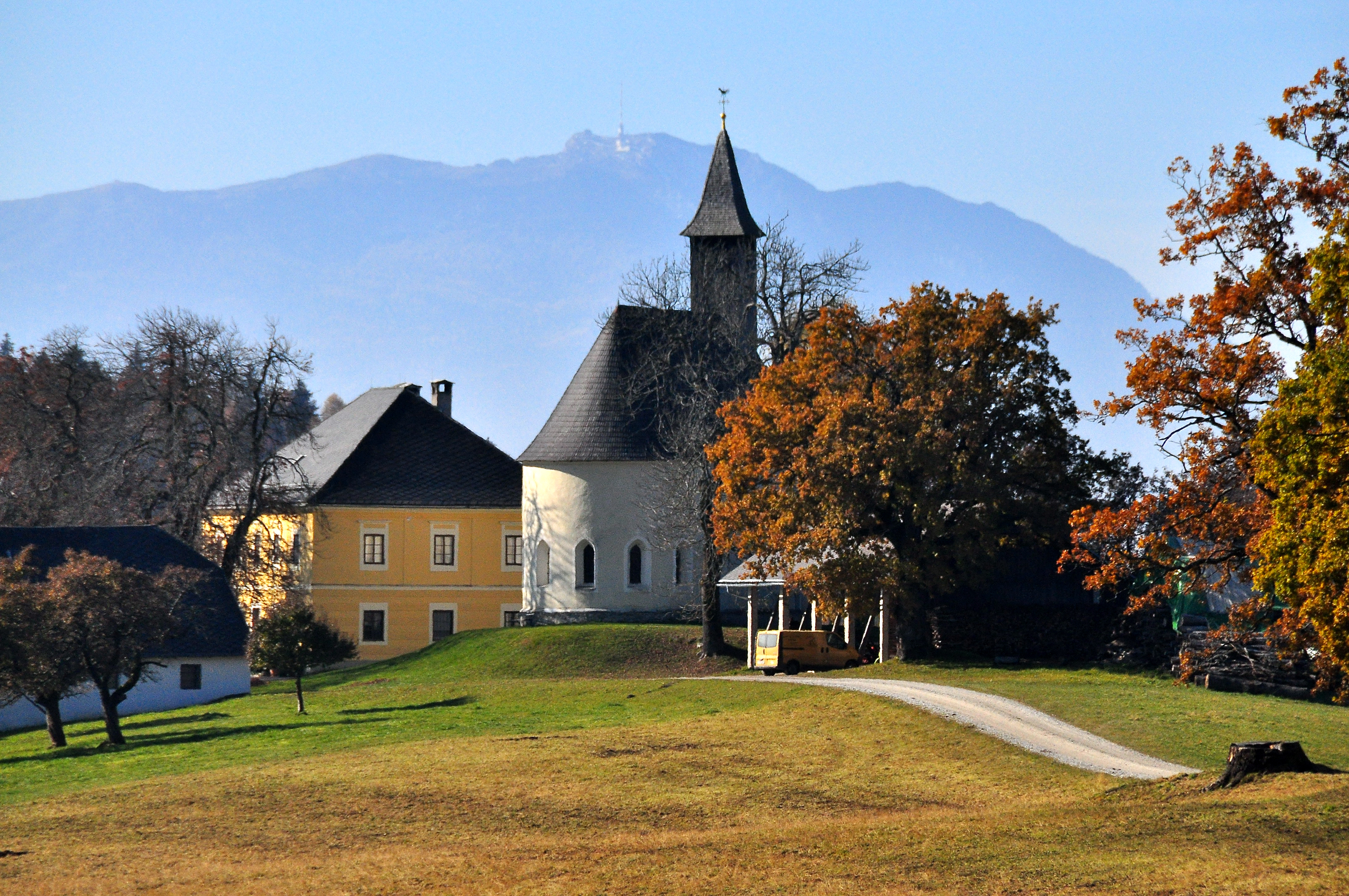 Manor and subsidiary church in the hamlet Tauern in the municipality Ossiach, district Feldkirchen, Carinthia, Austria